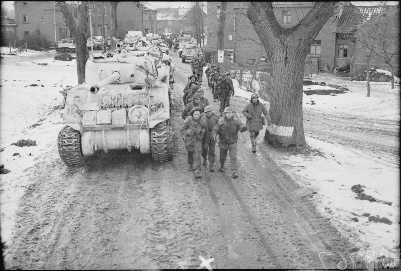 The British Army in North-west Europe 1944-45 Infantry of 6th Cameronians, 52nd (Lowland) Division, passing Sherman tanks near Havert in Germany, 18 January 1945.